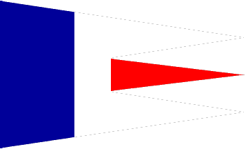 This is the house flag for clipper ships of Chambers & Heiser, a New York-based multi-vessel merchant marine company.